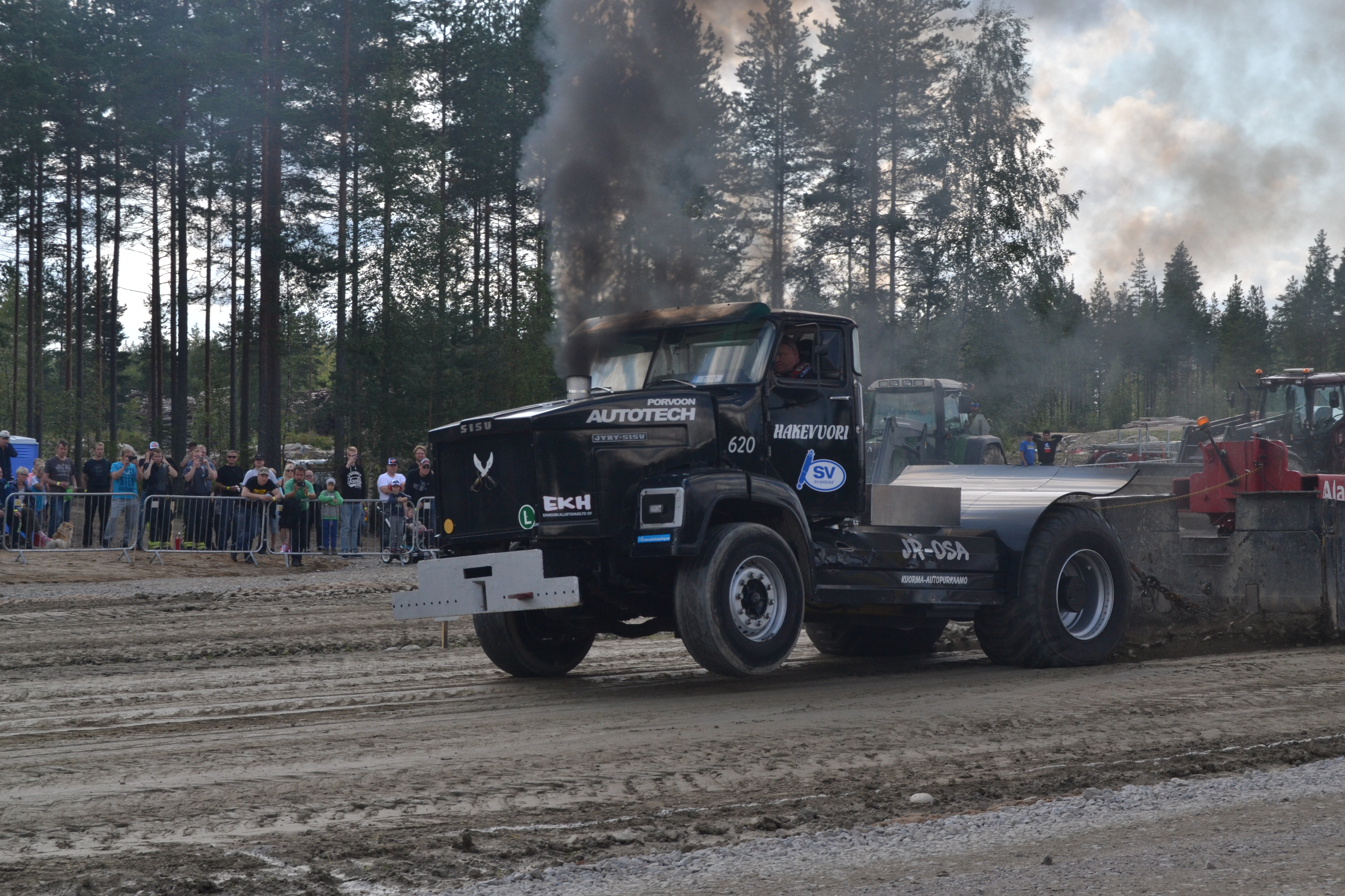 Jyry-Sisu truck pulling truck at C race in Lievestuore, Laukaa, Finland